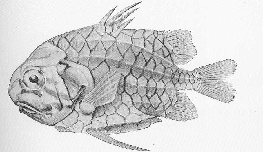 Pine-cone fish, Monocentris japonicus (Houttnyn). Waka, Japan Subject: Beryciformes, Monocentridae Tag: Fish